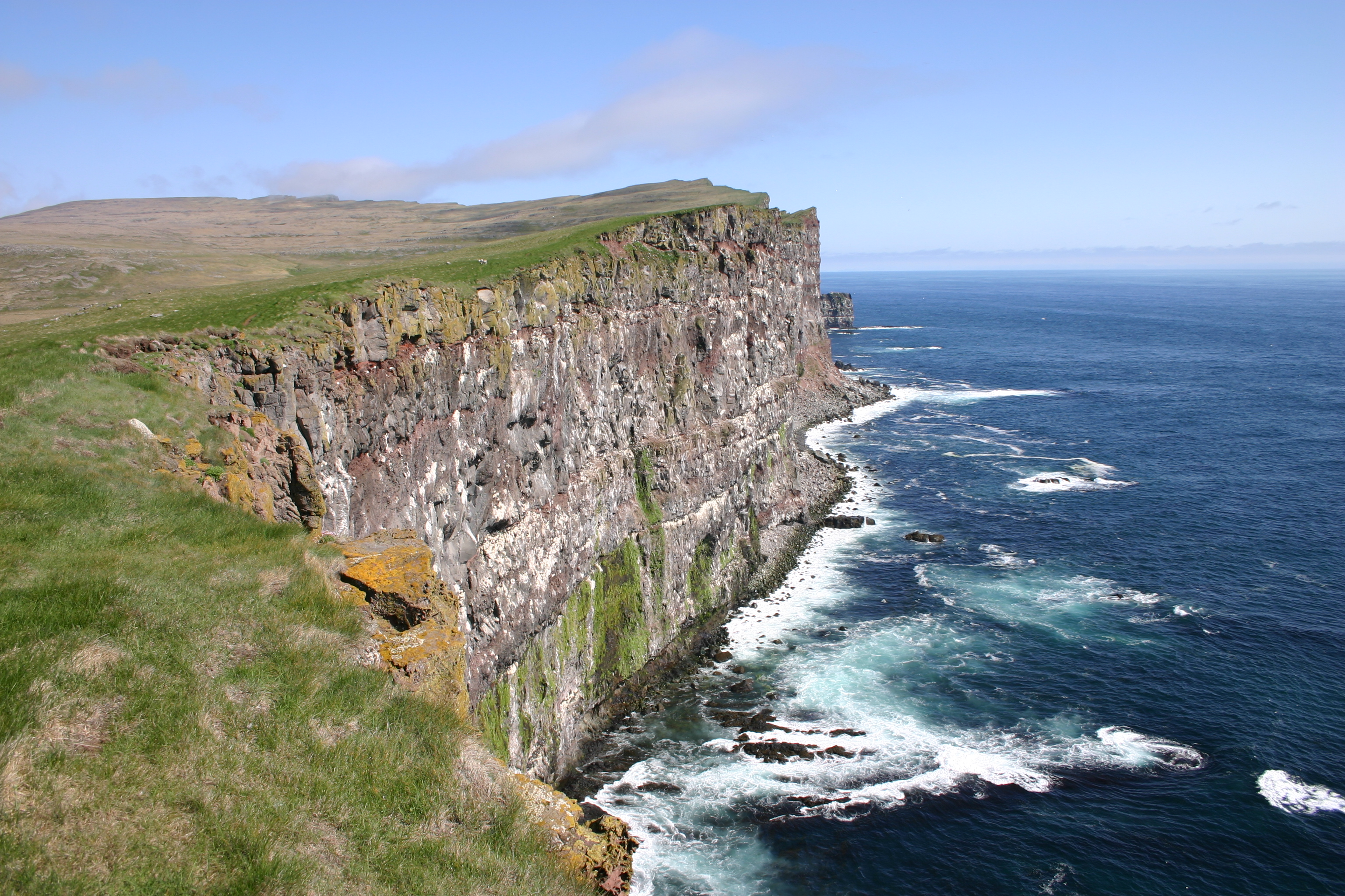 Cliff near Latrabjarg, Iceland. June 2008